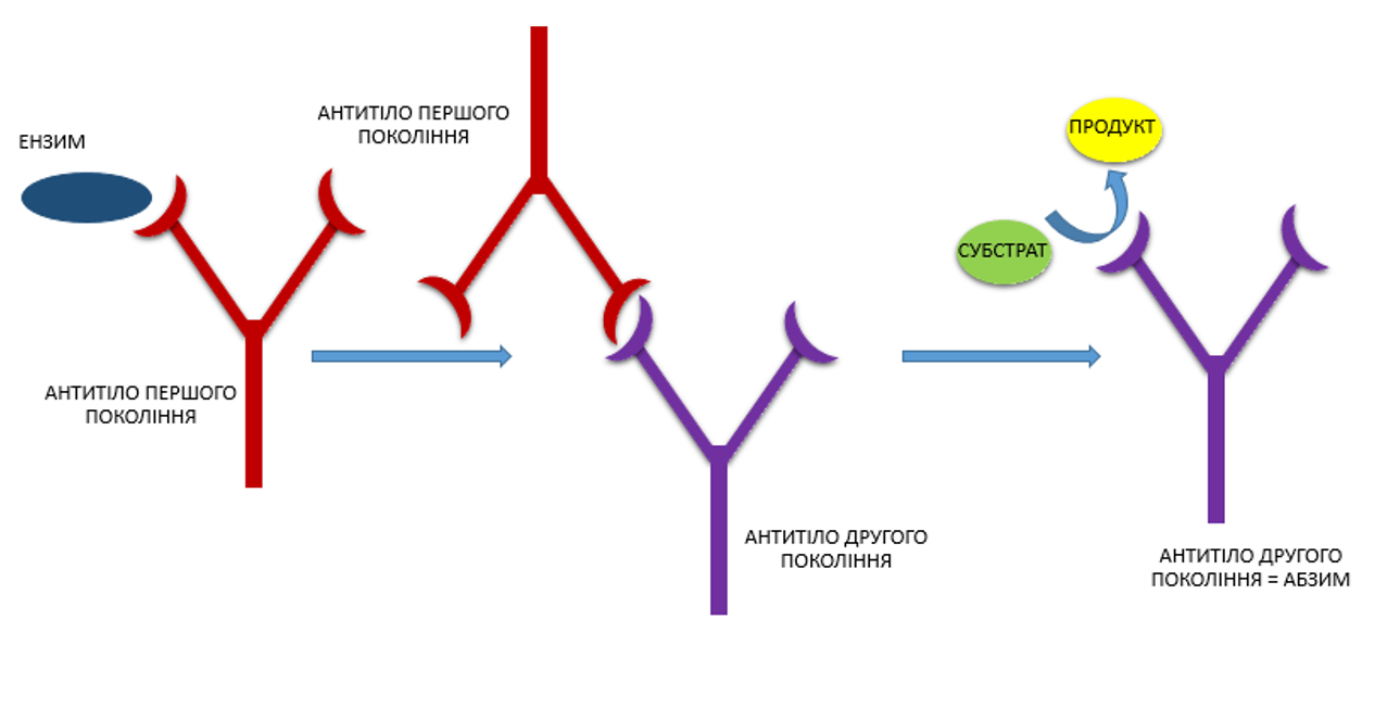 Ілюстрація схеми отримання абзиму методом 2